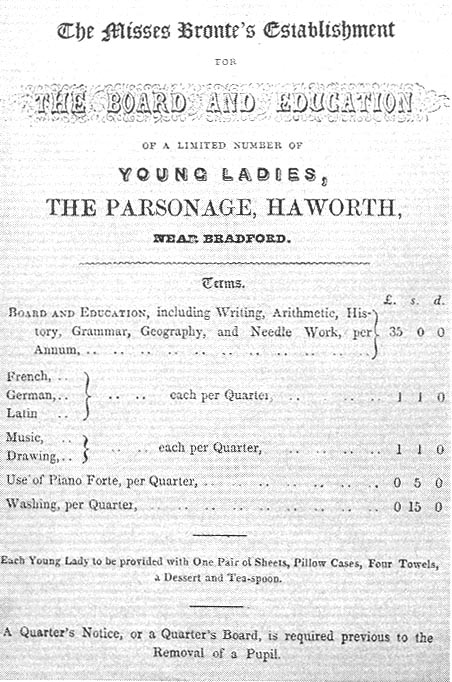 THE MISSES BRONTE'S ESTABLISHMENT